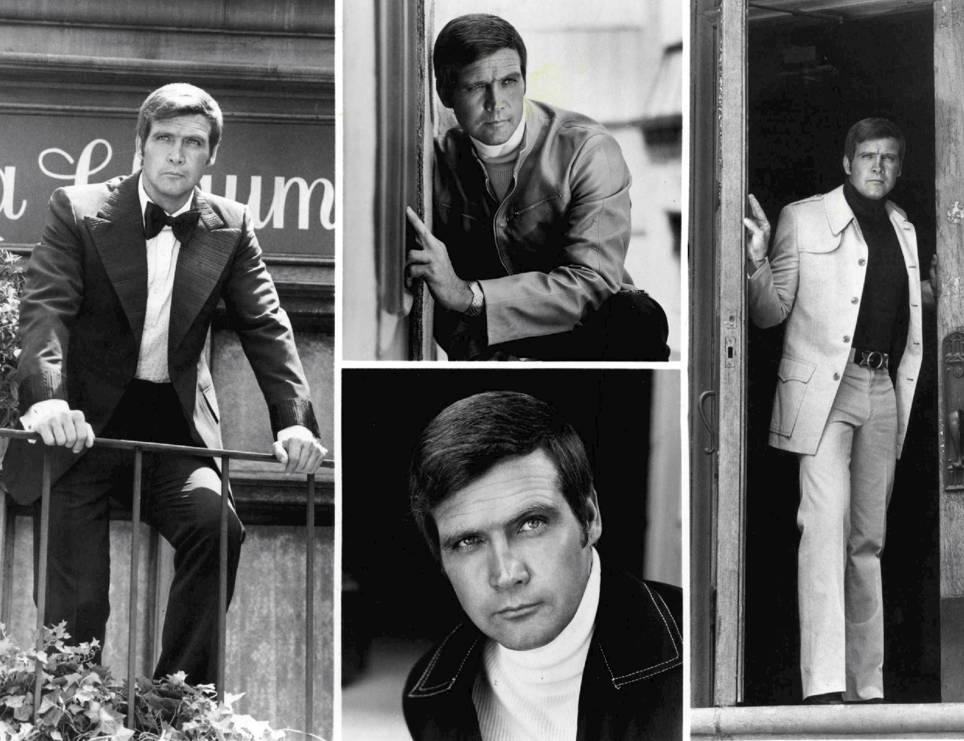 Composite photo of Lee Majors from the television program The Six Million Dollar Man.